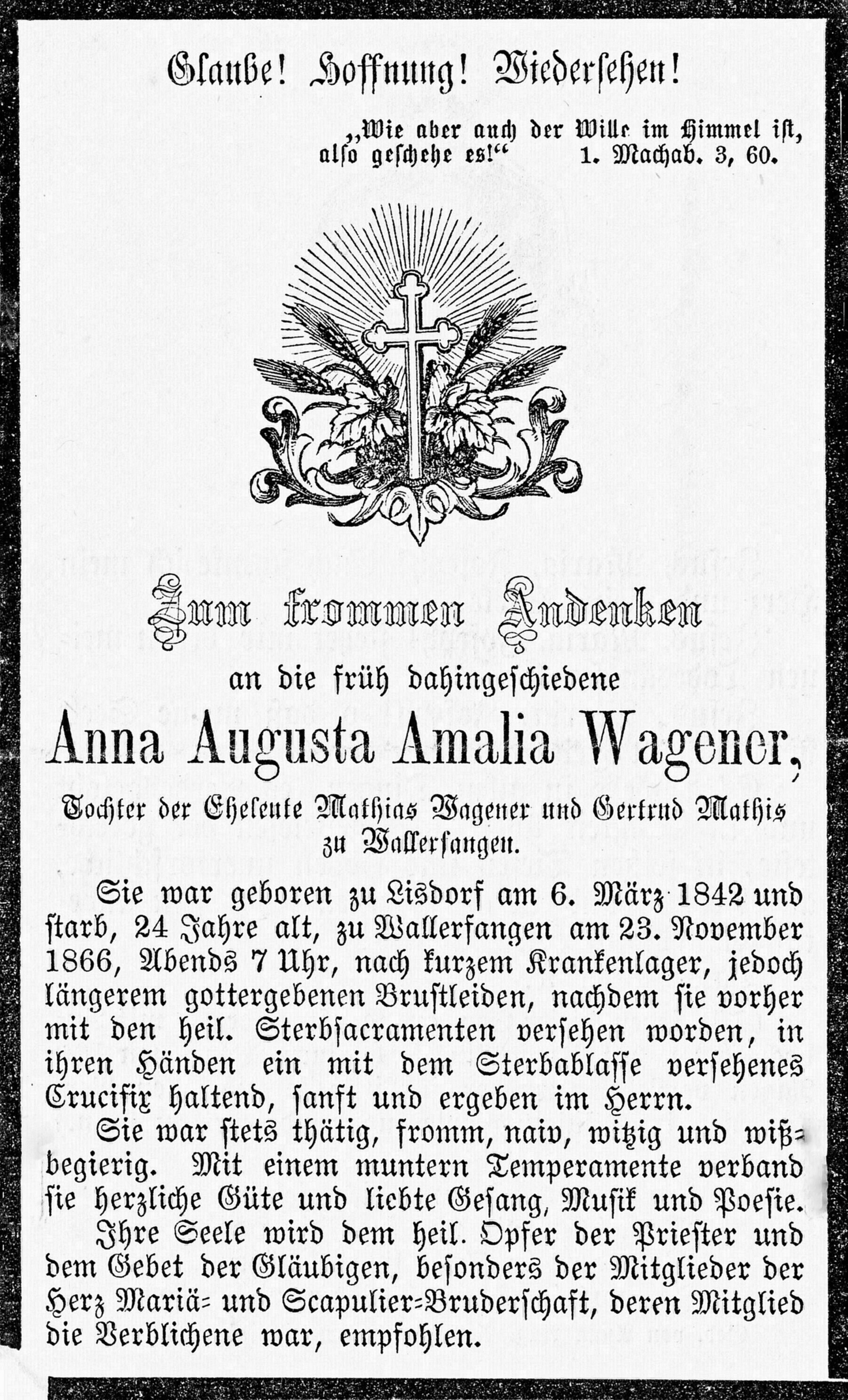 In memoriam card from 1866